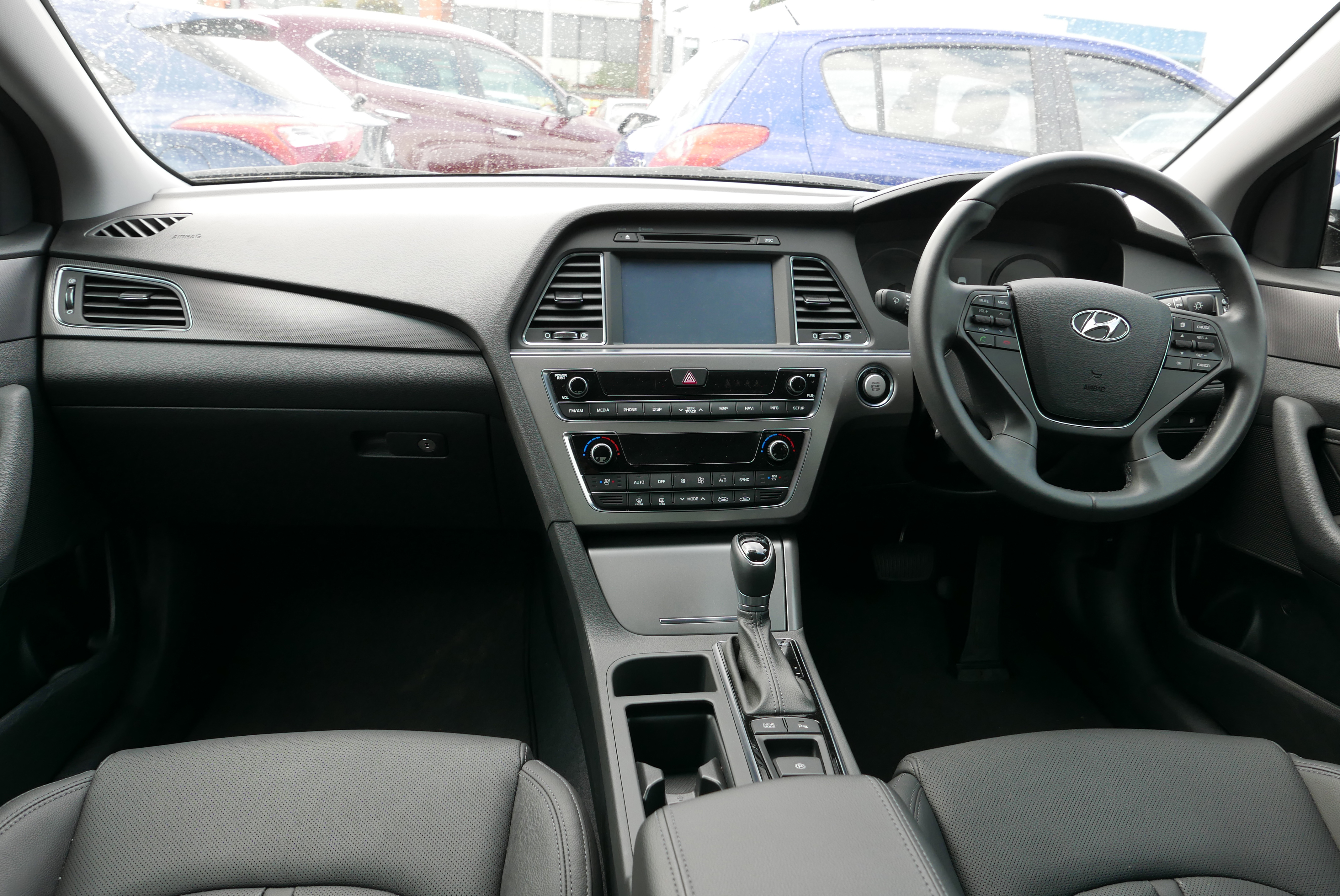 2014 Hyundai Sonata (LF MY15) Premium sedan. Despite the date discrepancy between the description and the vehicle registration information below, the build date on the vehicle is November 2014. Photographed at Yarra Hyundai, Abbotsford, Victoria, Australia. Vehicle registration enquiry resultsJurisdictionVictoriaRegistrationADR489Chassis codeKMHE341BMFA084864Engine codeG4KHEA564615Compliance date2015-02Year of manufacture2015